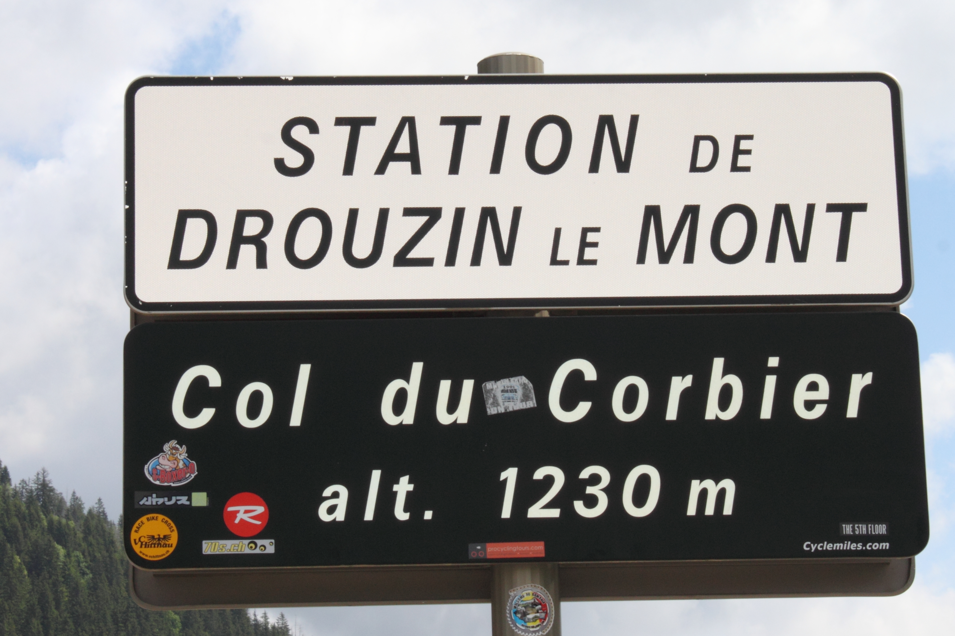 Col du Corbier, Haute-Savoie, France, road sign